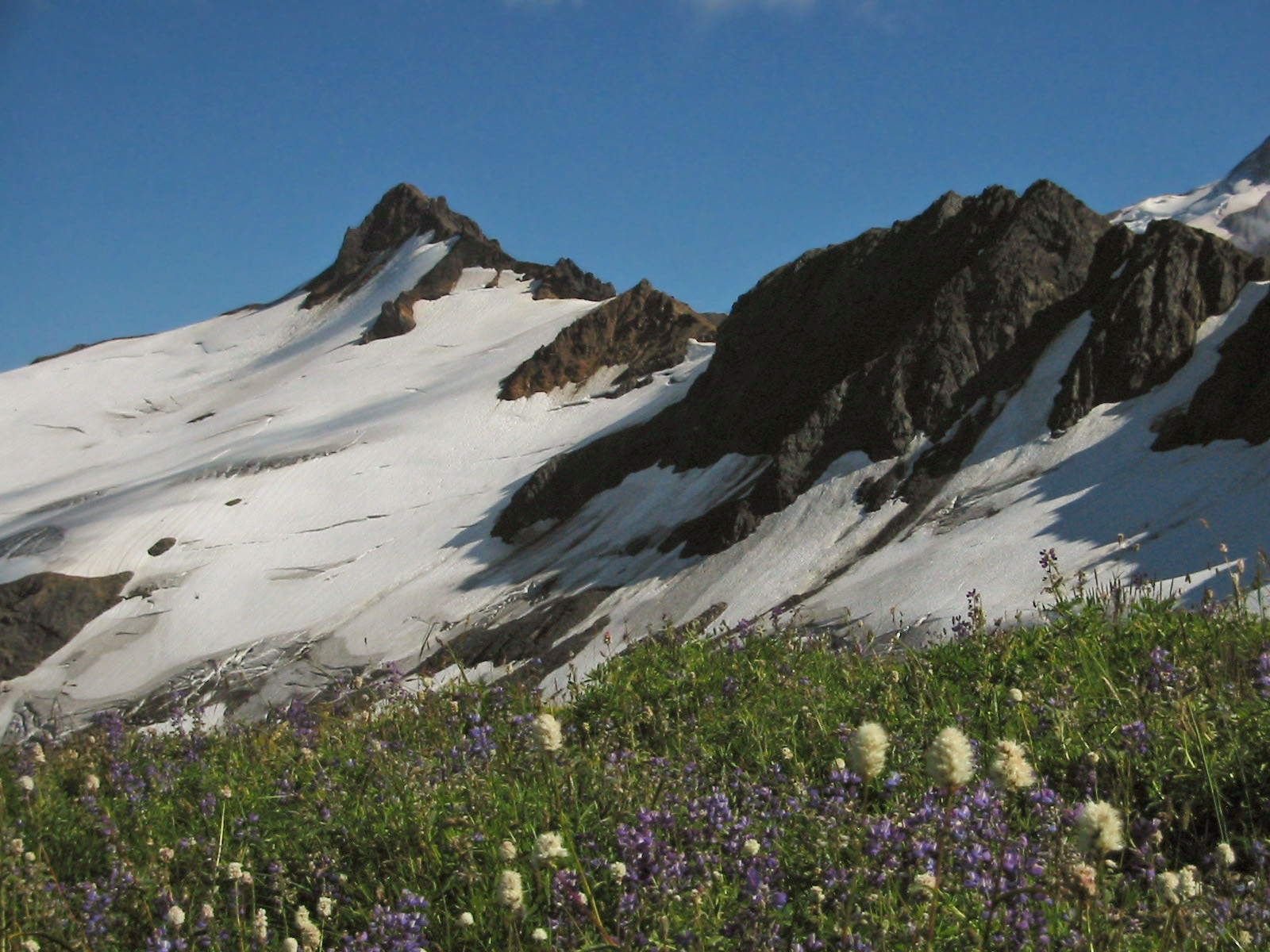 Hadley Peak (7515 feet), Hadley Glacier (left) and Chowder Ridge (right). American bistort and lupine cover the meadow in the foreground.